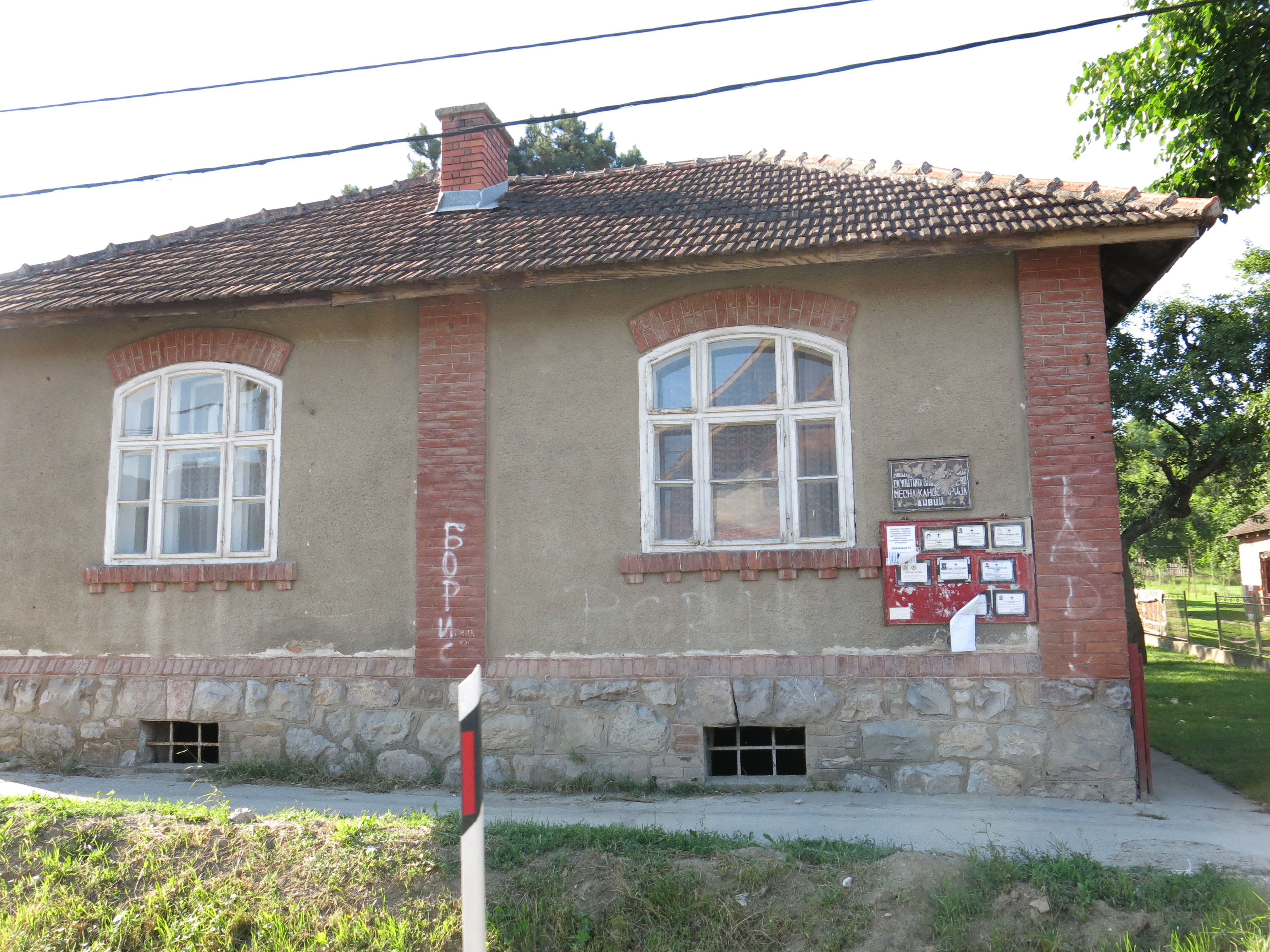 Divci, Town office building